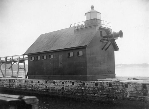 U.S. Coast Guard Archive Photo of Grand Haven Front lighthouse